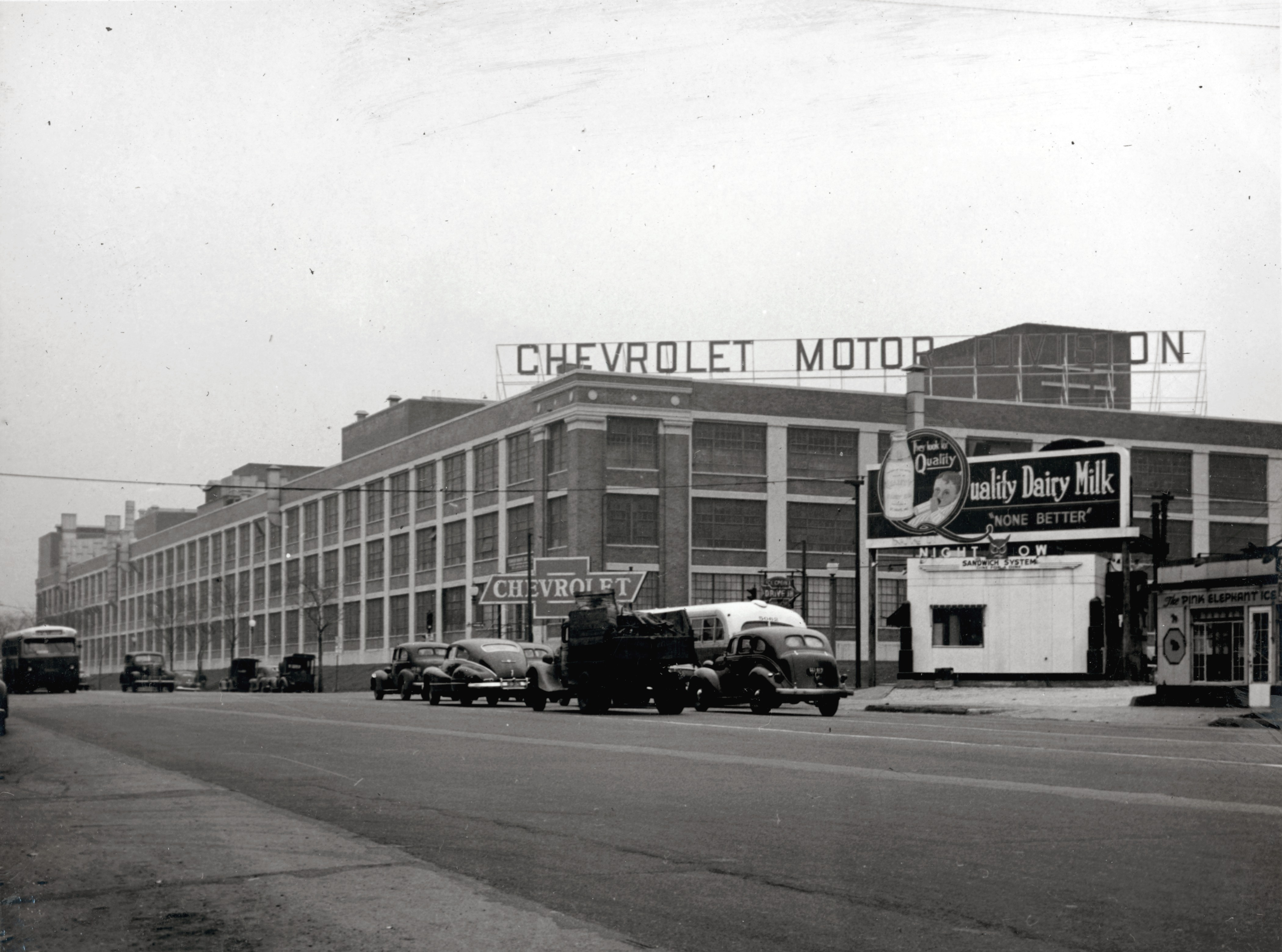 General Motors [Chevrolet] (West On Natural Bridge). 3809 Union Boulevard. Photograph by Joseph Hampel, 1946. Joseph Hampel Album. p. 10b. Acc. # 1998.94. Missouri Historical Society Photographs and Prints Collections. NS 23696. Scan © 2007, Missouri Historical Society.